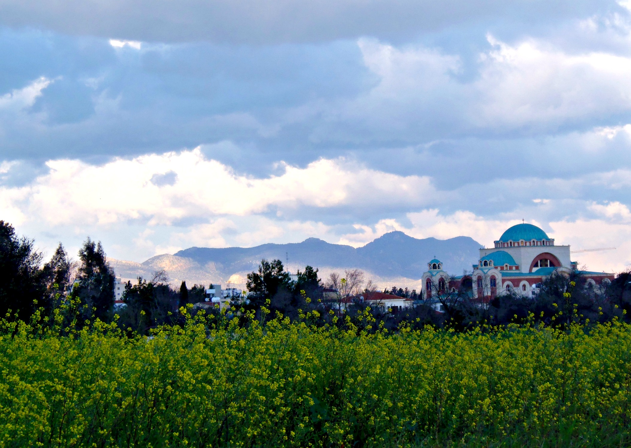 Agios Sofia Church in Strovolos, Nicosia